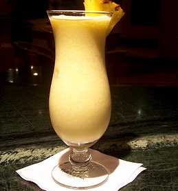 Pina Colada